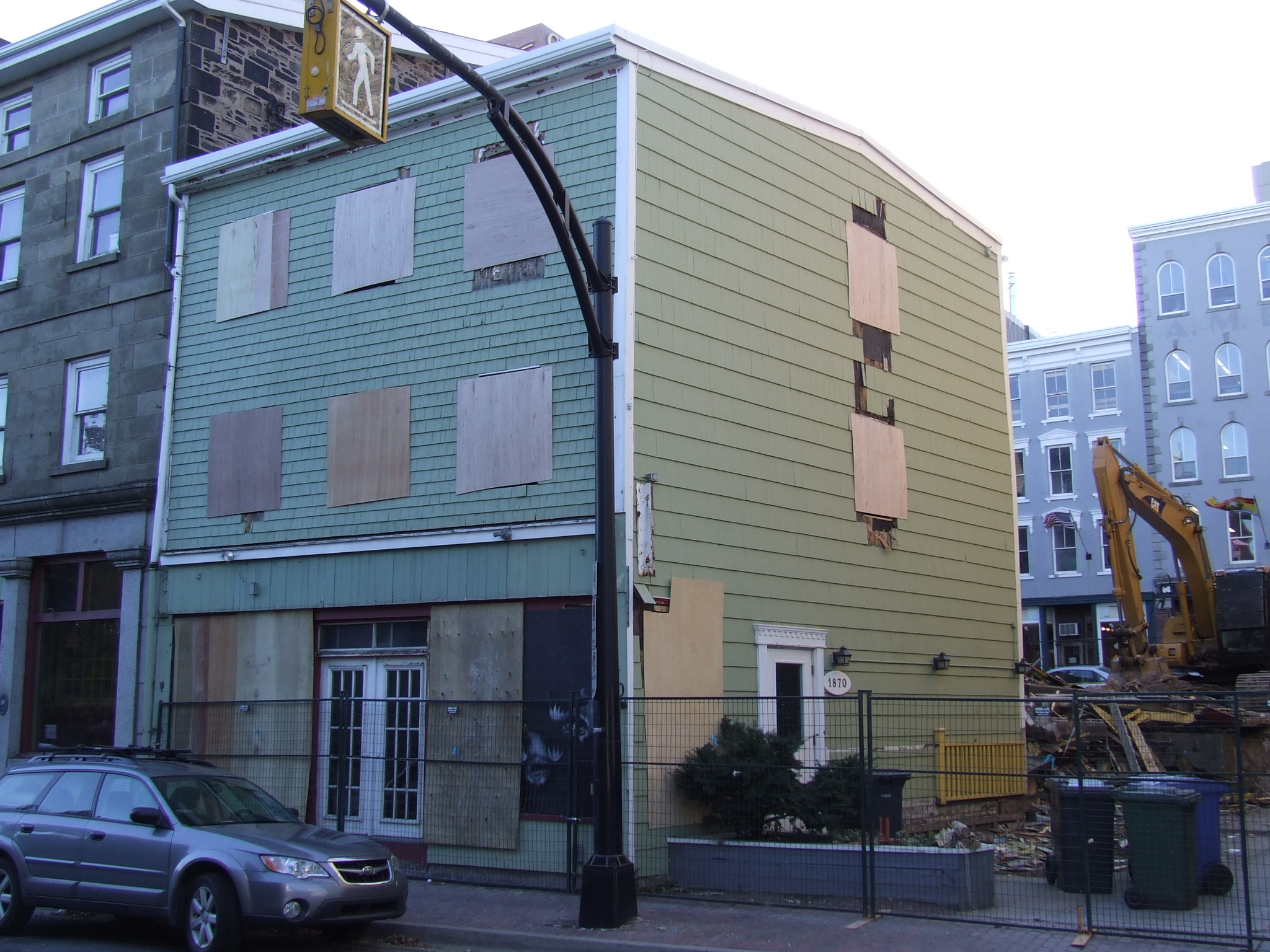 The Sweet Basil building, a former heritage building and restaurant in Downtown Halifax, Nova Scotia demolished in November 2008 by Armour Group a developer.